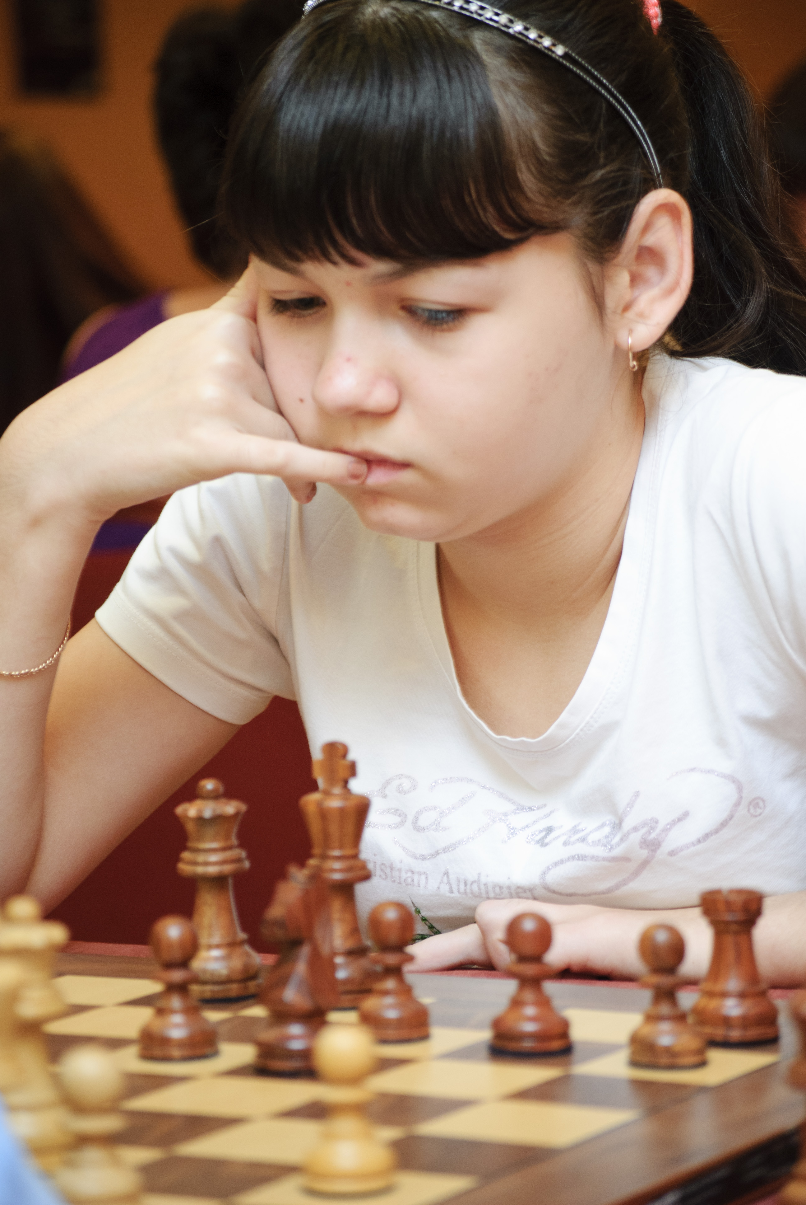 WGM Goryachkina Aleksandra, WChJ Athens 2012